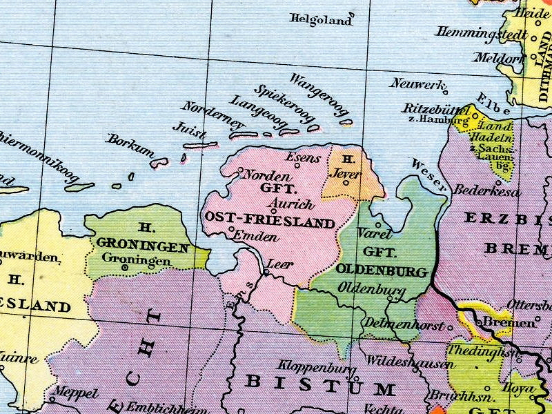 Herrschaft Jever and Grafschaft Ostfriesland and surrounding territories about 1500